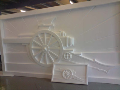 A polystyrene sculpture of the famous Arsenal cannon, made for the highbury square development